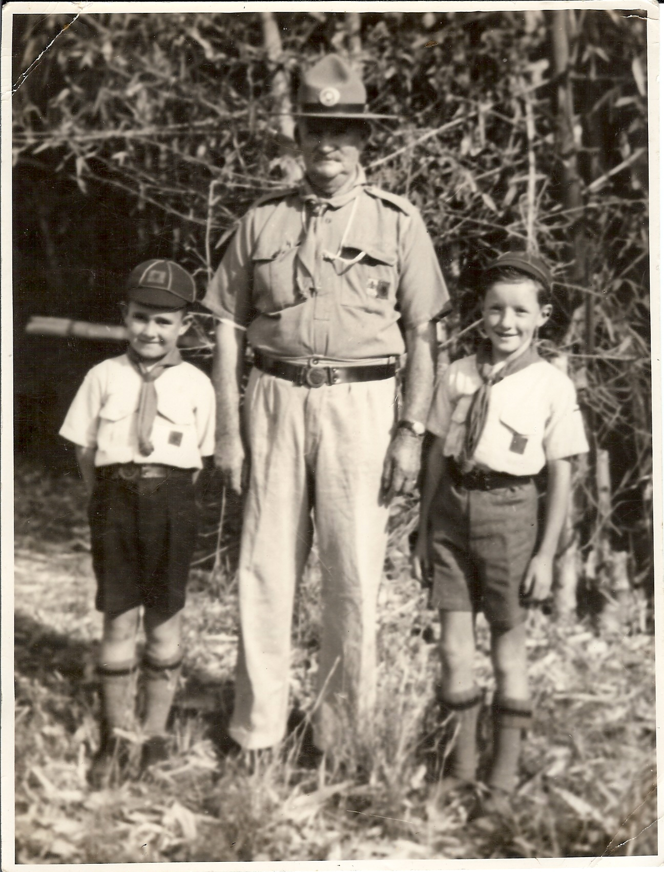 "Pop" W.R.Johnstone with two Cub scouts Feb 1948. "Pop" W.R.Johnstone was the first Cub Master of St Johns Wood Scouts.He remained Cub Master until 1946, when he became Group Scout Master. He led the Group until June 1947, when he resigned for health reasons.